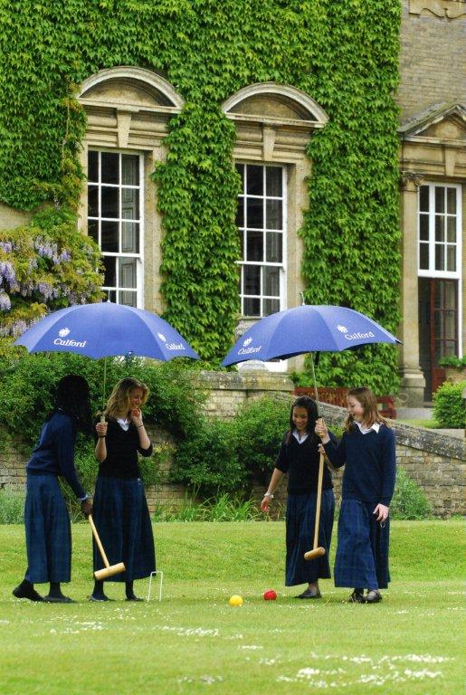 culford school south front croquet